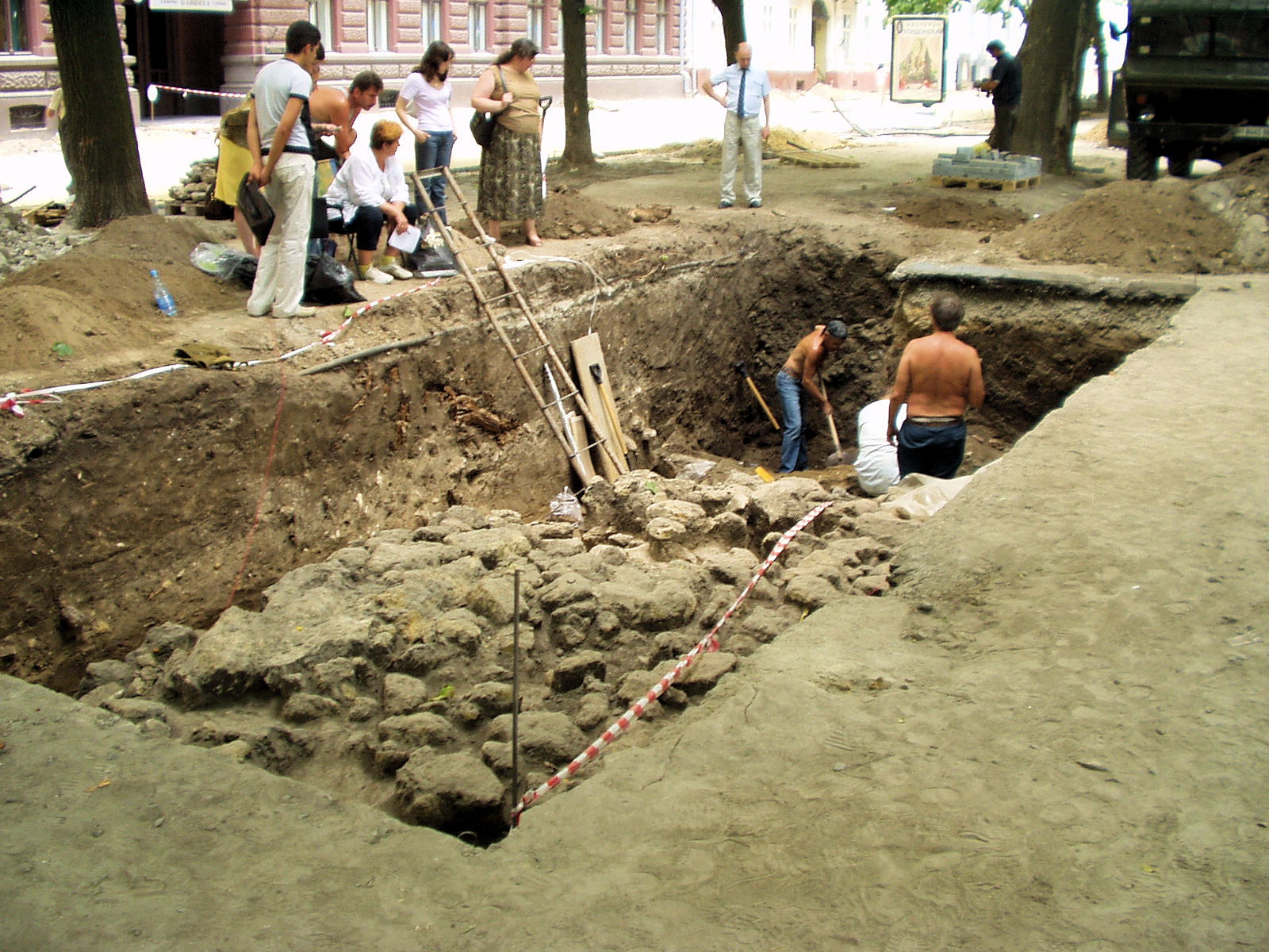 Primorsky bulvard, Odessa. Opening of the accient town.